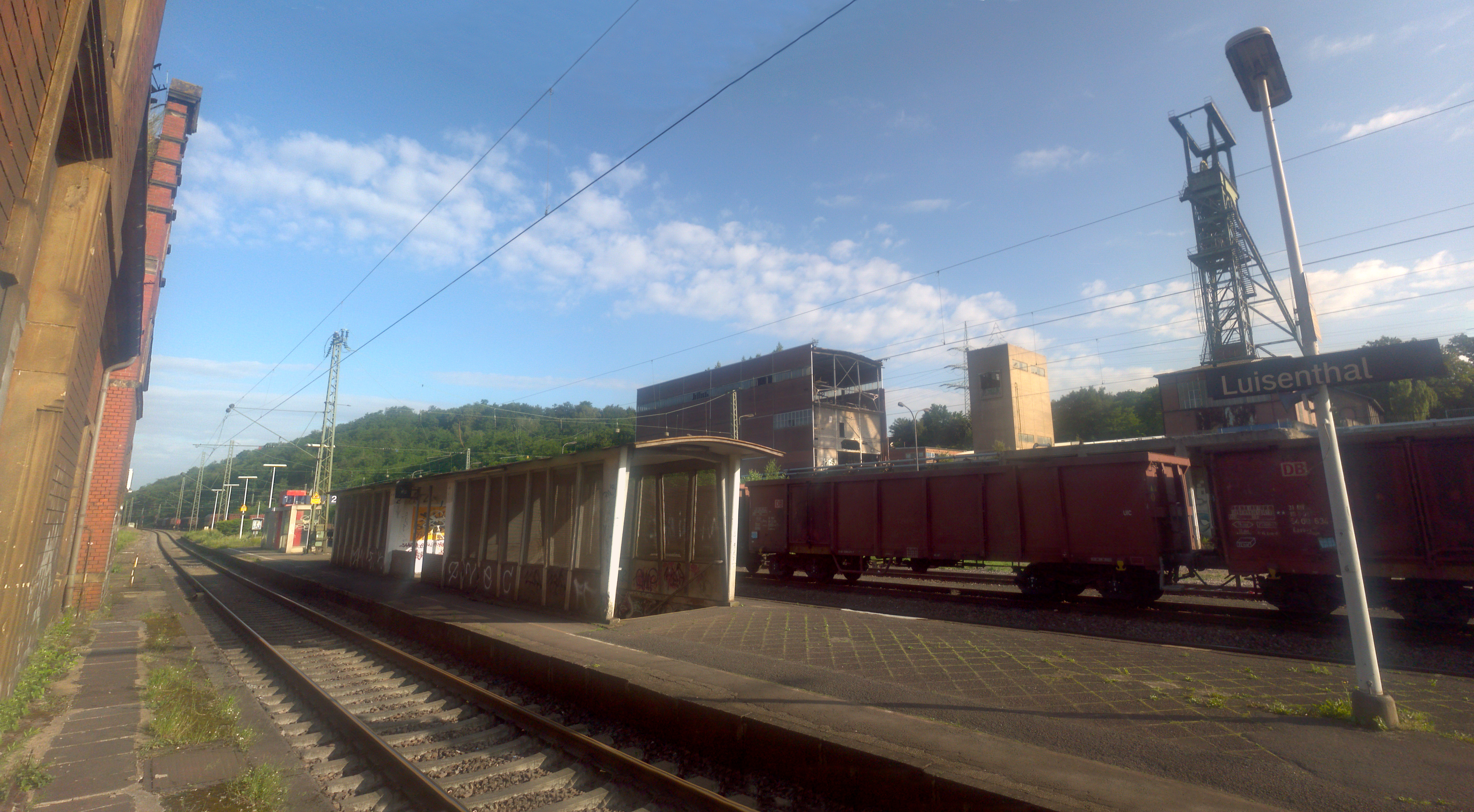 Photomerge of railway station Luisenthal (Saar)